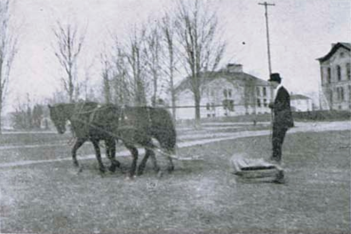 From the 1916–1917 Sturgeon Bay High School yearbook, caption reads "Mr. Soukup--All in a Day's Work"